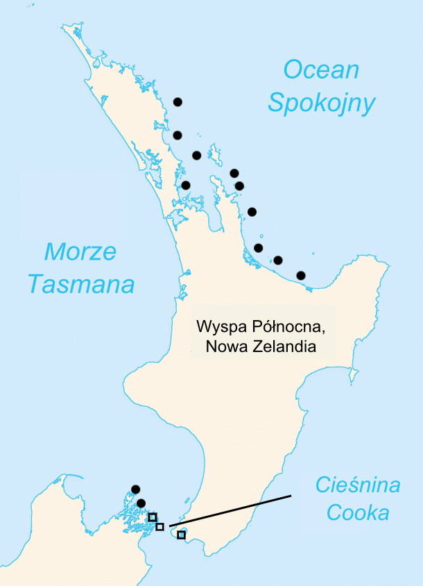 Current distribution of tuatara (in black). Circles represent the North Island tuatara, squares the Brothers Island tuatara. Symbols may represent up to seven islands. (Polish translation)